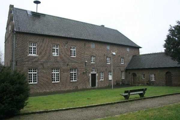 Cultural heritage monument No. 3 in Selfkant